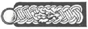 Rang insignia shoulder strap, here “Reichsführer-SS” (today comparable to NATO OF-10) until 1945.